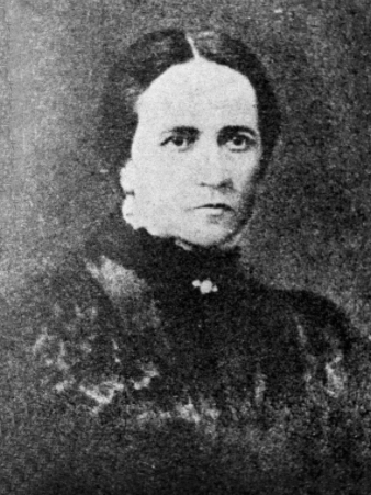 Ana Gabriela de Campos Sales, widow of former Brazilian president Campos Sales, who died in 1913.